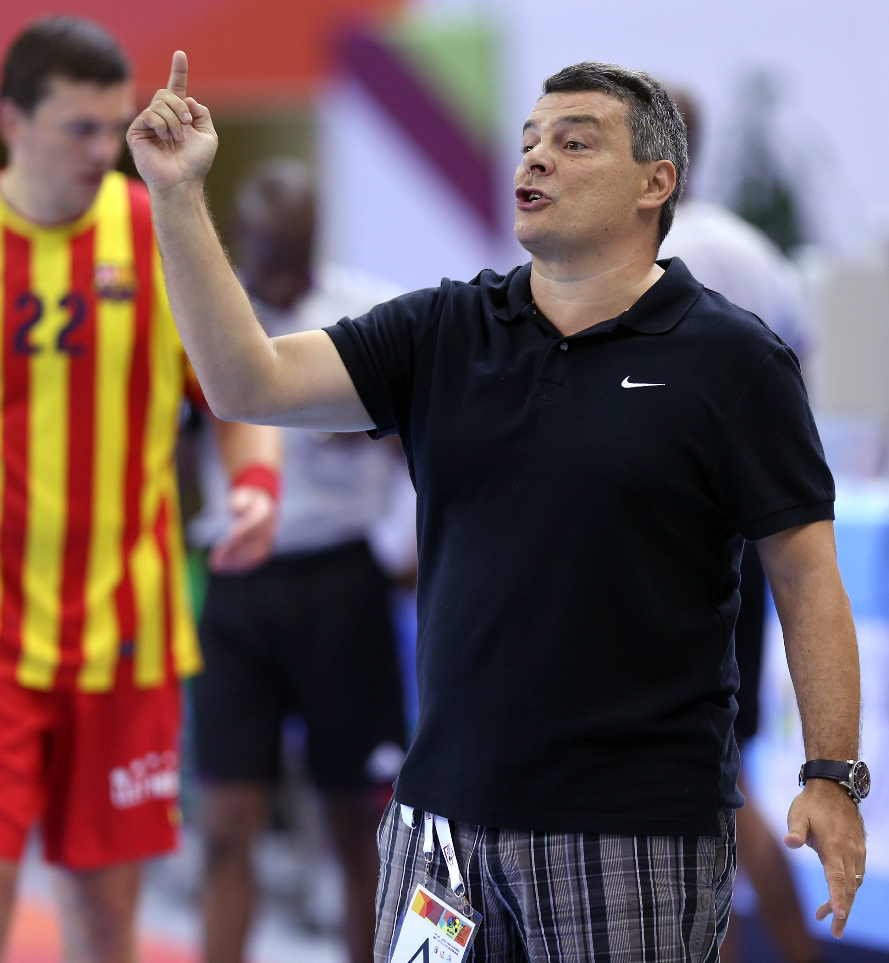 FC Barcelona Intersport coach Xavier Pascual instructs his players during their game against Al Rayyan in the 2013 IHF Super Globe tournament in Doha.